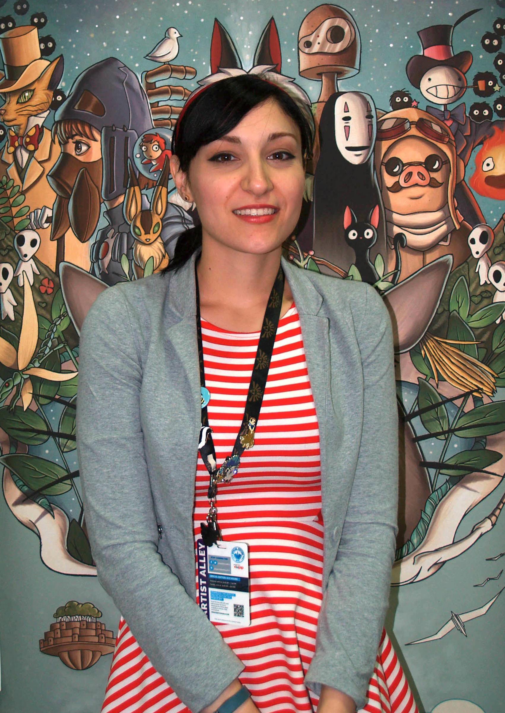 Comics artist Chrissie Zullo on Saturday, June 14, 2014, Day 1 of Special Edition NYC, a comic book convention at the Jacob K. Javits Convention Center in Manhattan. This photo was created by Luigi Novi. It is not in the public domain, and use of this file outside of the licensing terms is a copyright violation.